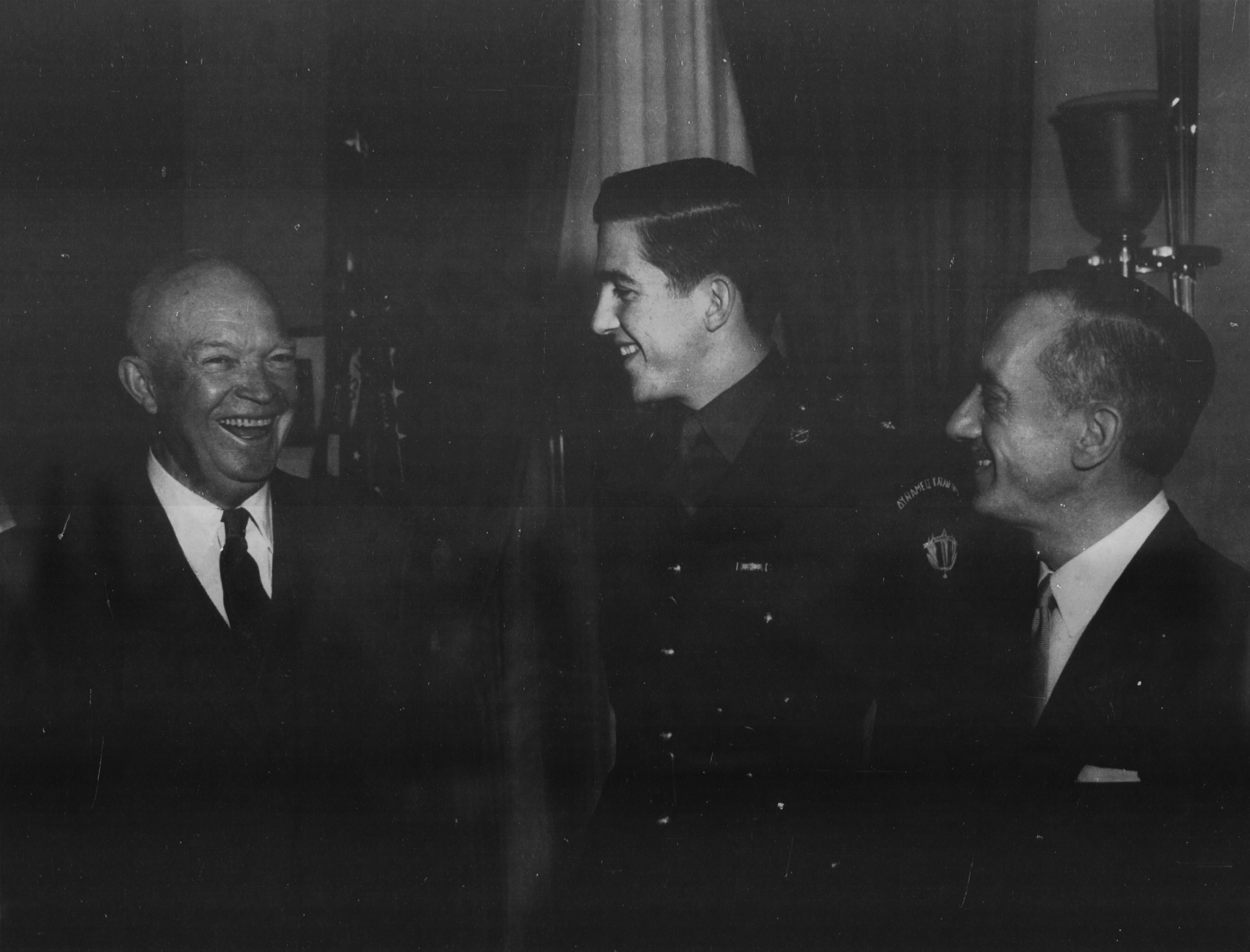 Dwight Eisenhower, Constantine II of Greece and Alexis Liatis, ambassador of Greece